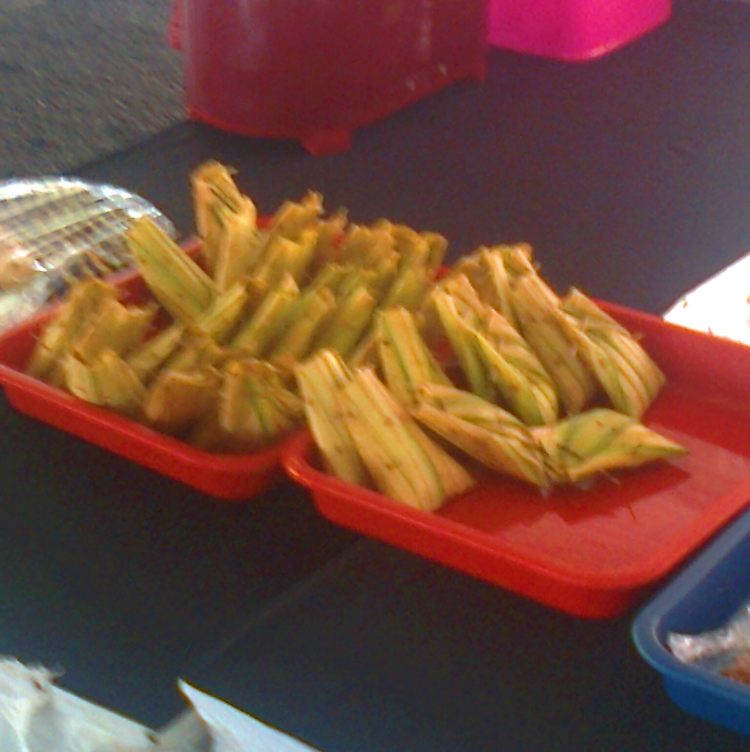 Tapai pulut in Sabah, East Malaysia.